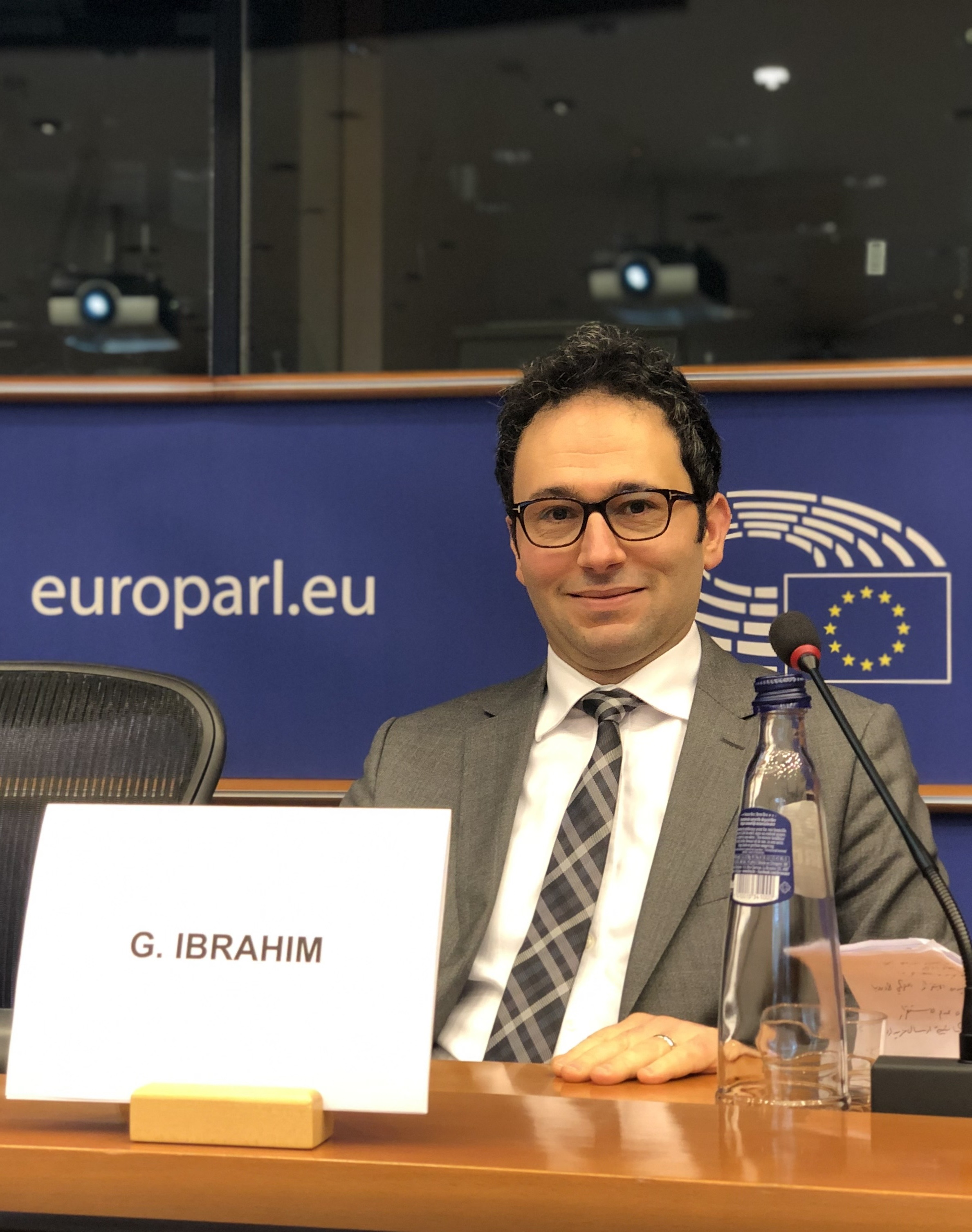 Ghassan Ibrahim was speaking at EU Parliament in 12 Dec 2019